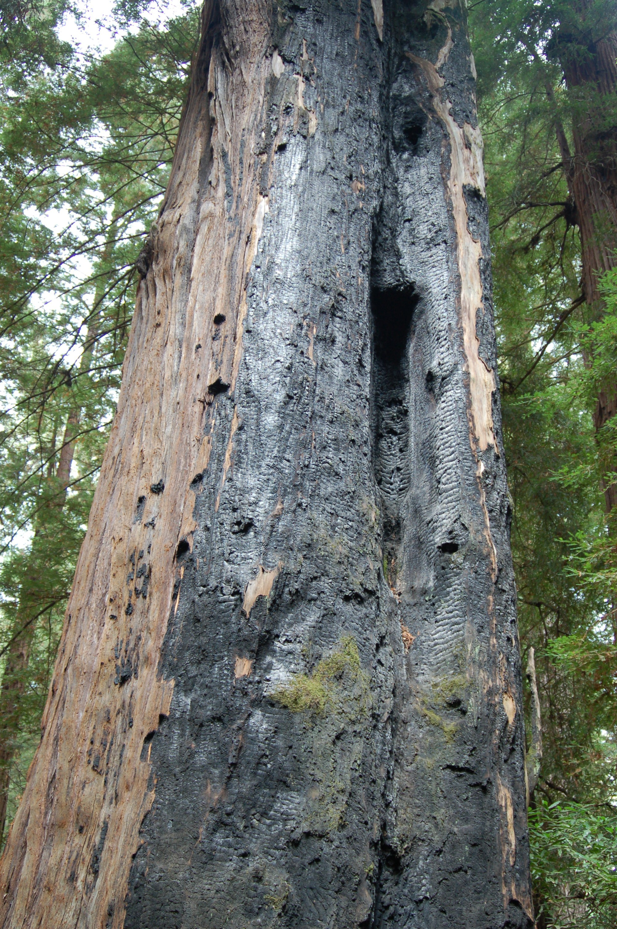 A charred trunk of a burned Coast Redwood tree showing showing growth of moss. The fire was over 100 years ago. Henry Cowell Redwoods State Park, Redwood Grove.